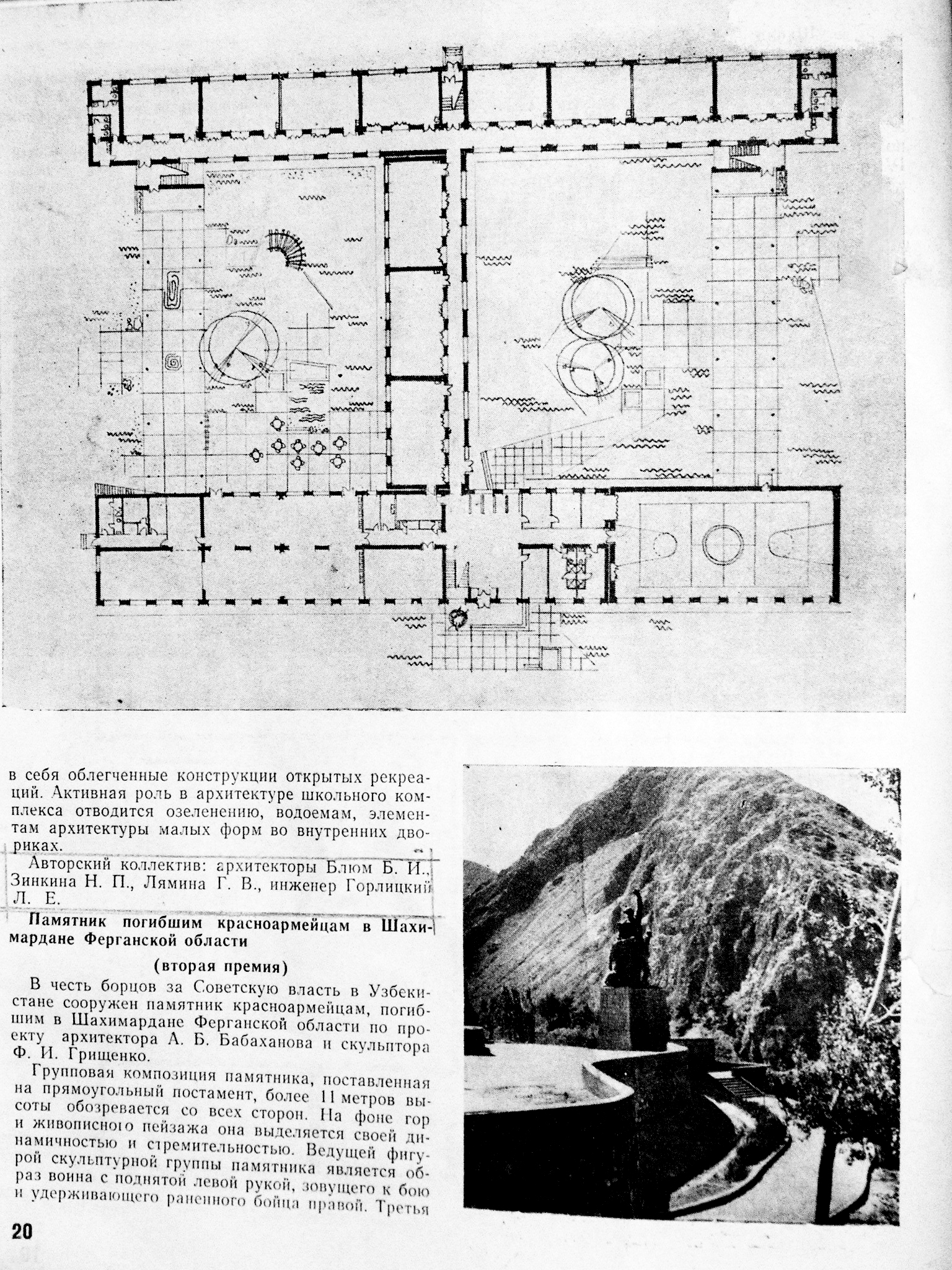 Magazine Page